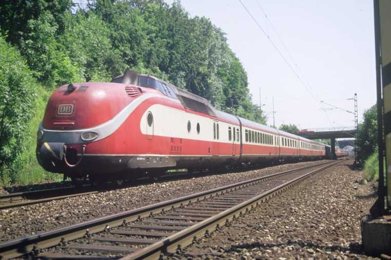 A trainset of the type commonly used for many German Trans Europe Express (TEE) trains until 1972, here seen running in non-TEE service in Munich in 1986.